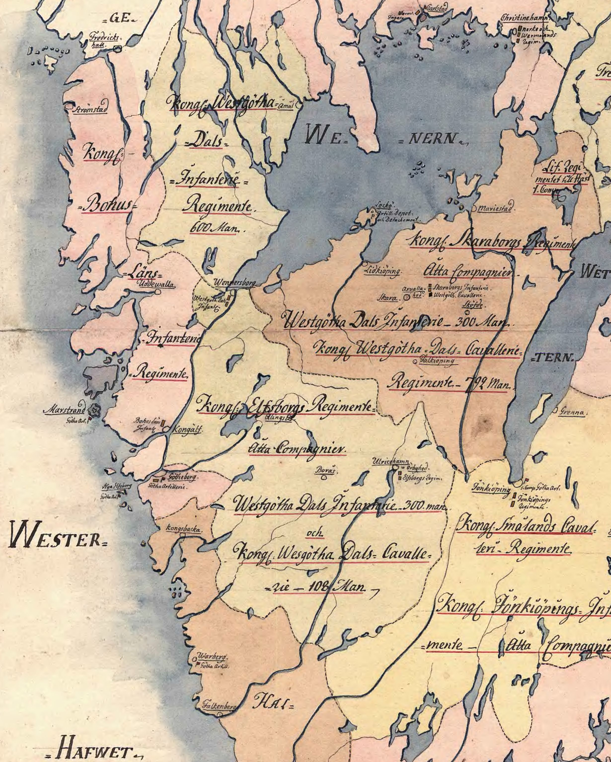 Westswedish armyregiment location and traninggrounds around 1790.